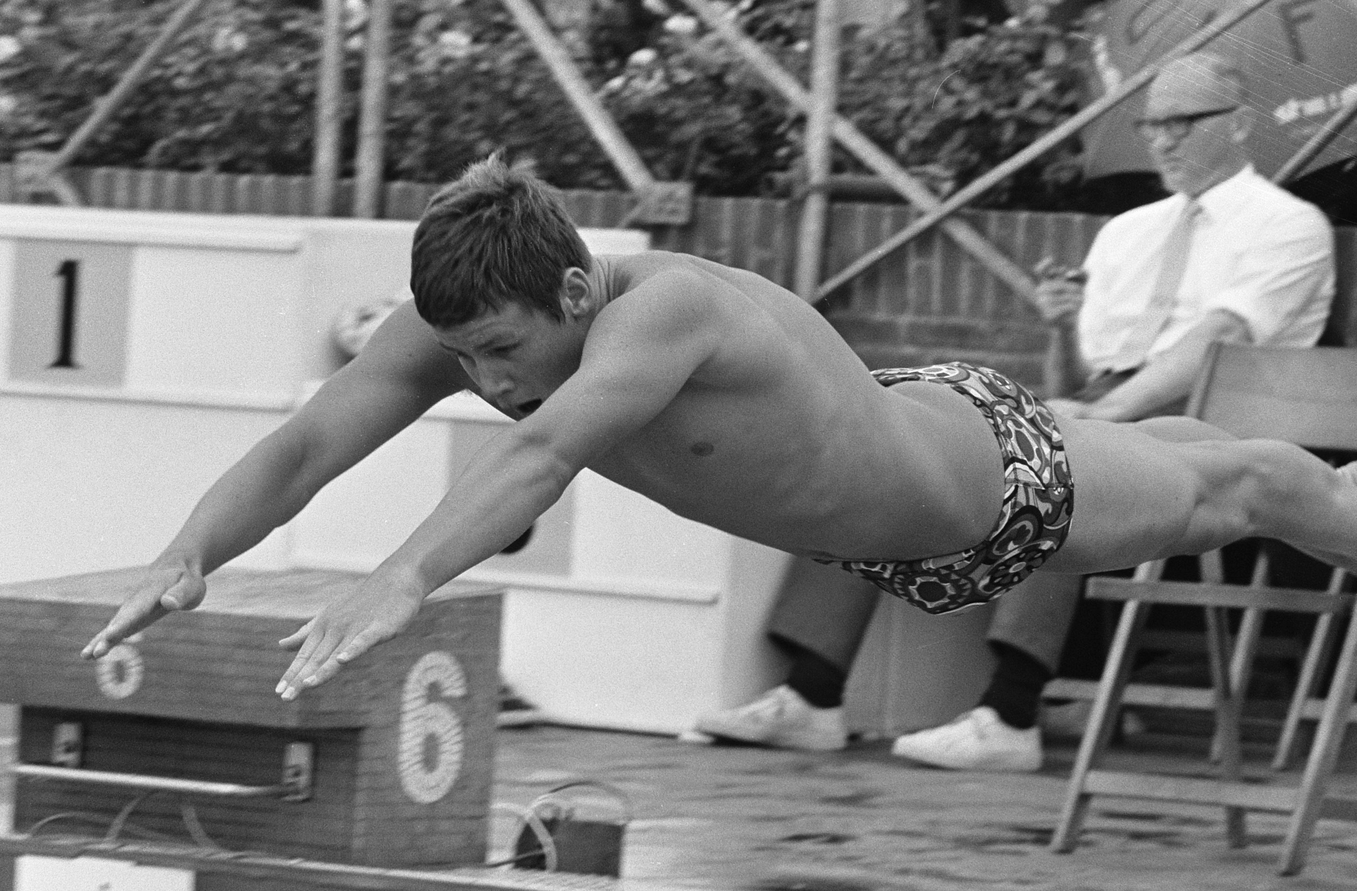 Roger van Hamburg